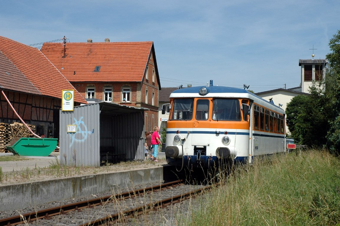 MAN railbus on the Neckarbischofsheim–Hüffenhardt railway at final destination Hüffenhardt. Train number SWE 70773.